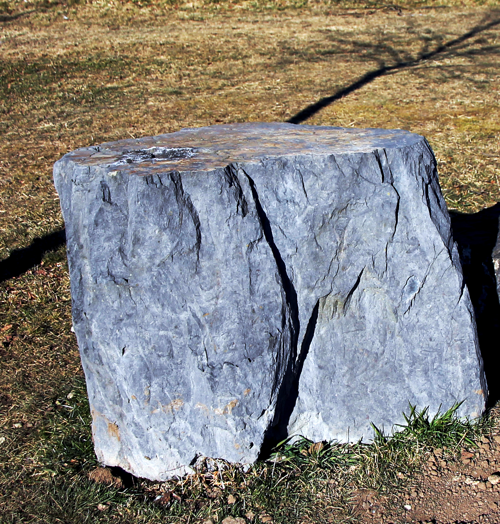 The rock siltstone found in Prague region exhibited in small geopark “Geologická zahrada” in Dolní Počernice, Prague, Czech Republic